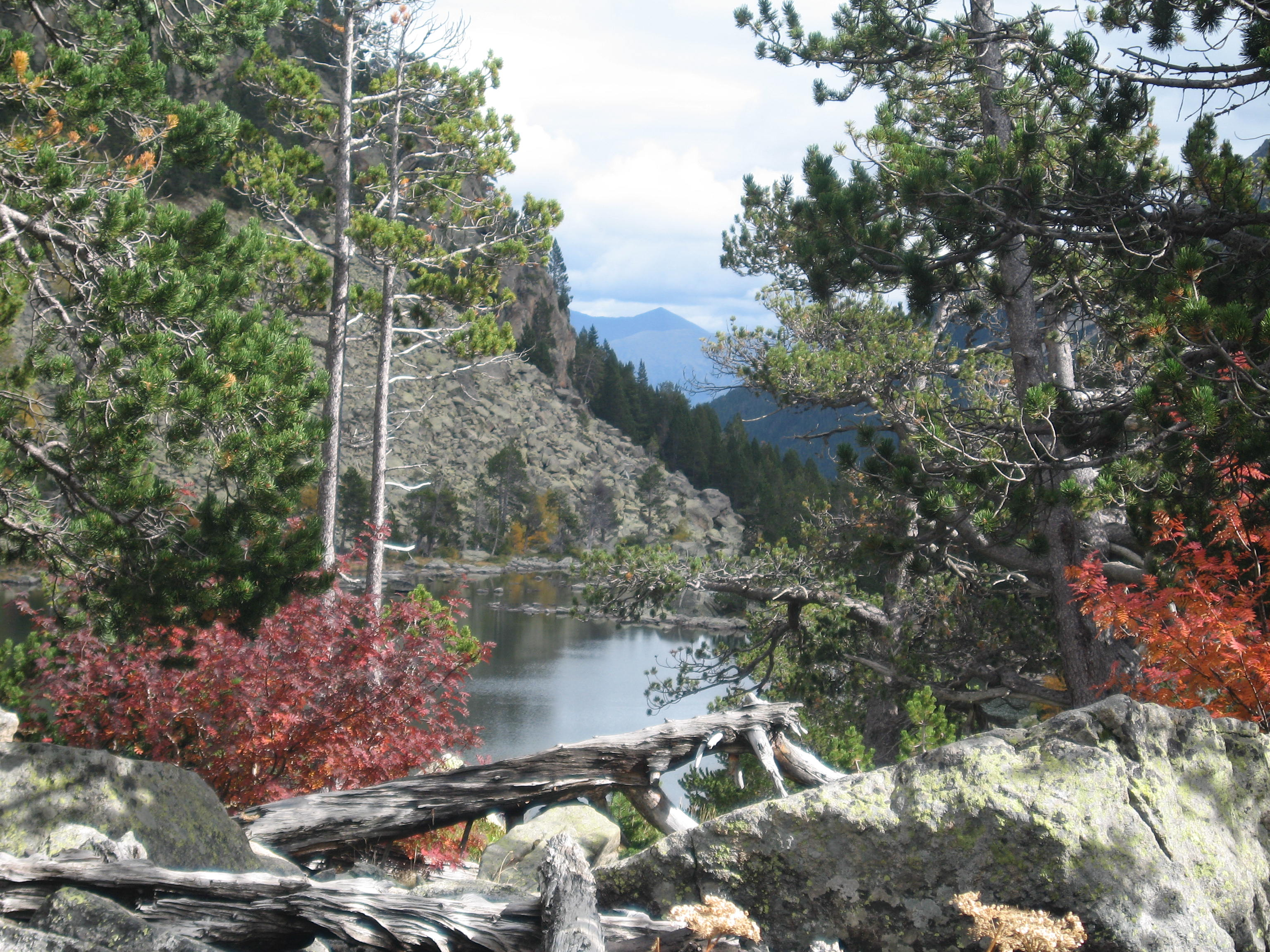 Lake and trees in Aigüestortes i Estany de Sant Maurici National Park